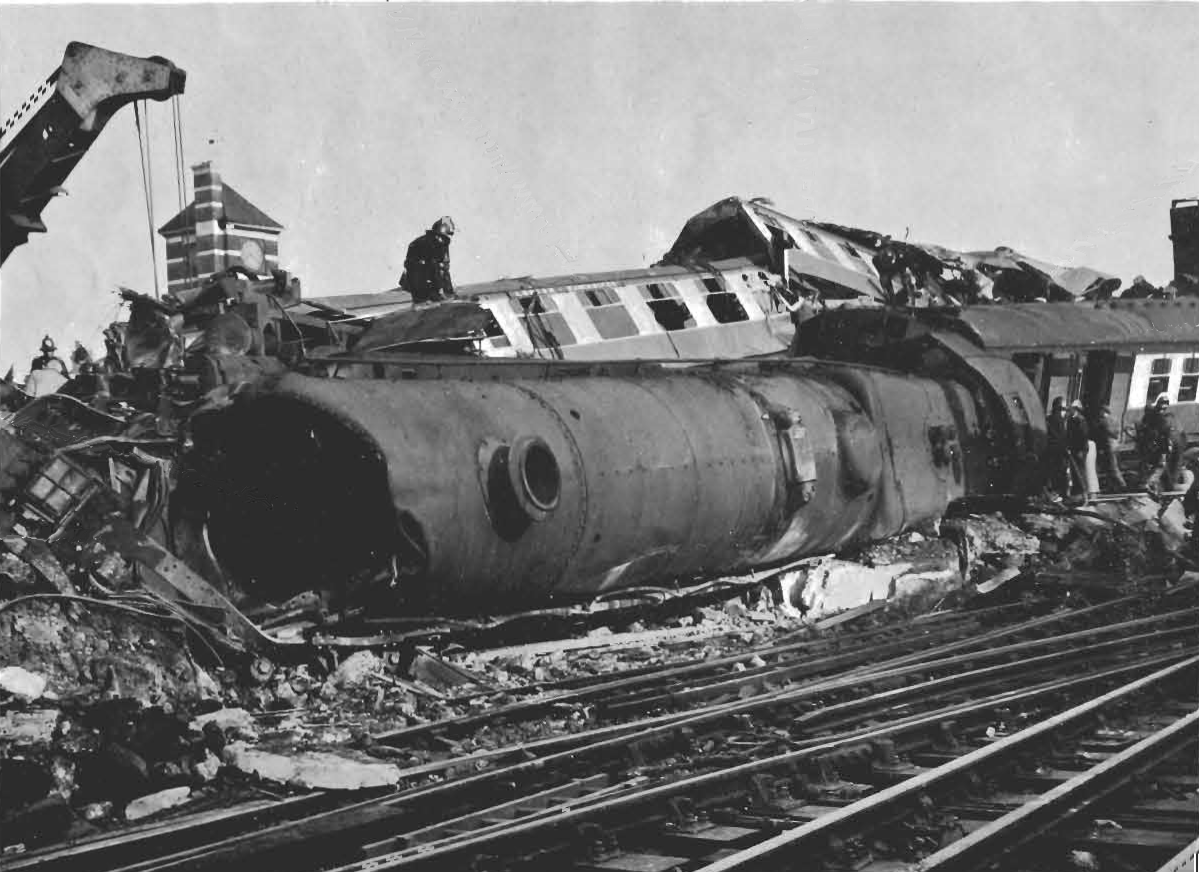 The overturned second Liverpool locomotive No. 46202 and wrecked coaches after the Harrow and Wealdstone train crash on 8 October 1952